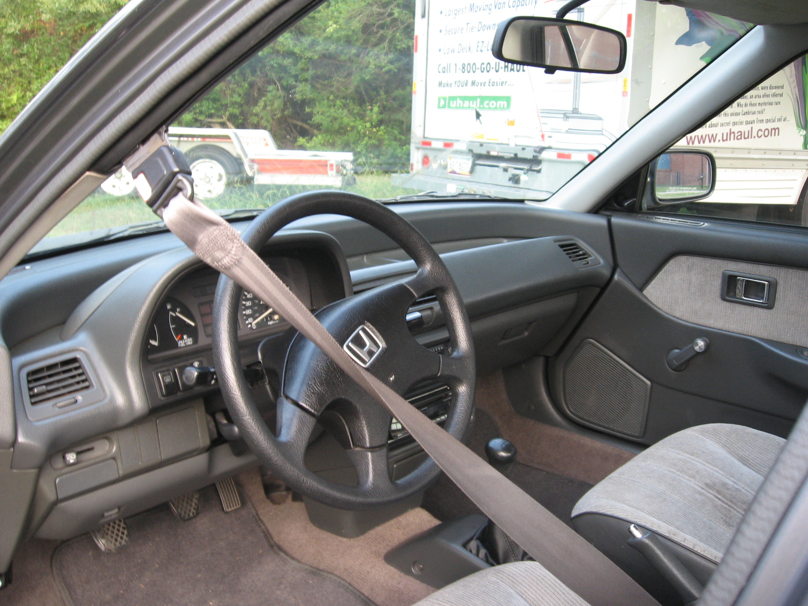 Self-made image of my US-edition 1990 Honda Civic DX, showing interior and automatic seat belt.